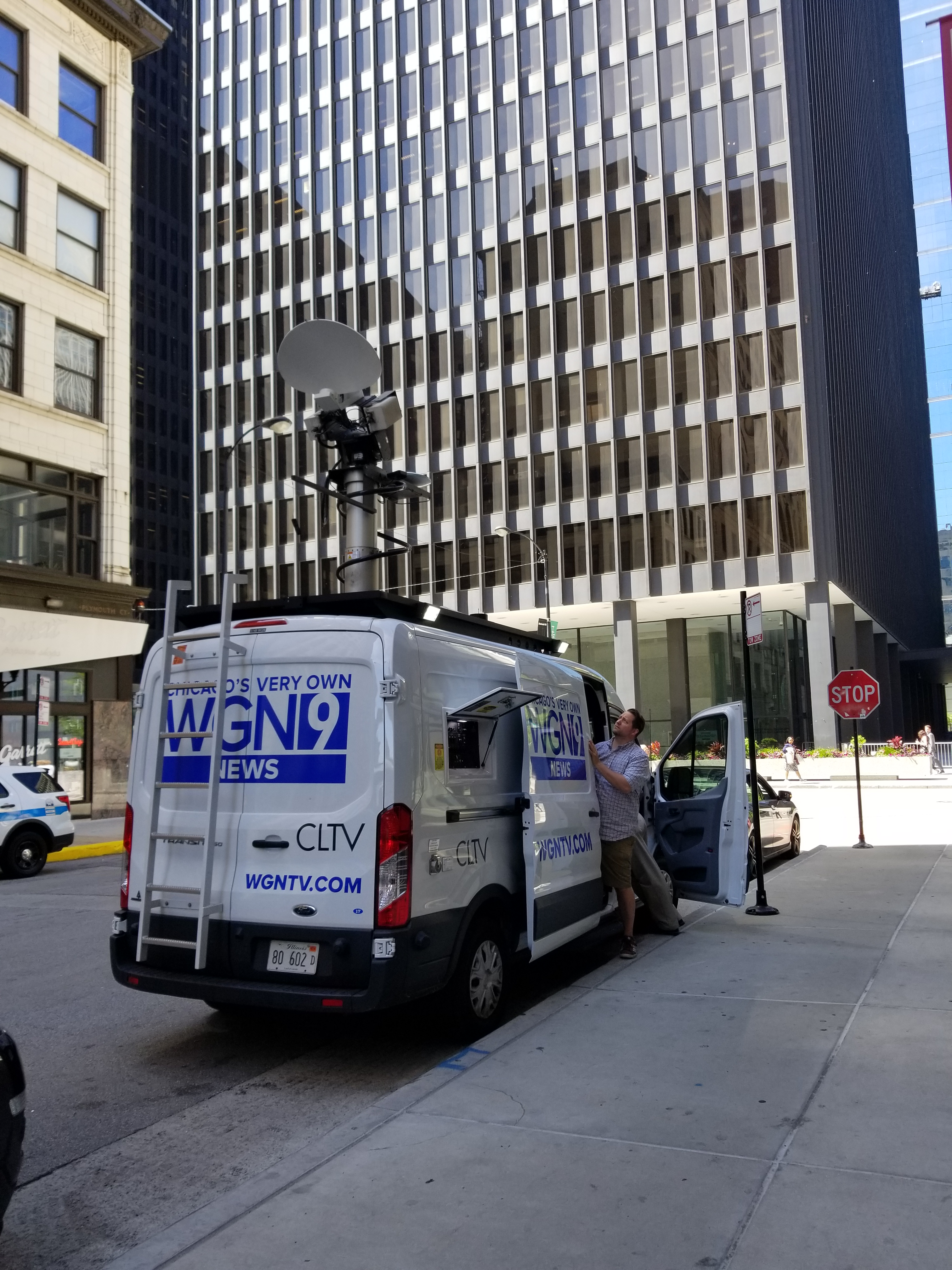 Federal Center complex in Chicago